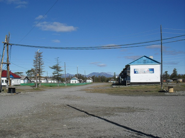 Small village Tahtoyamsk